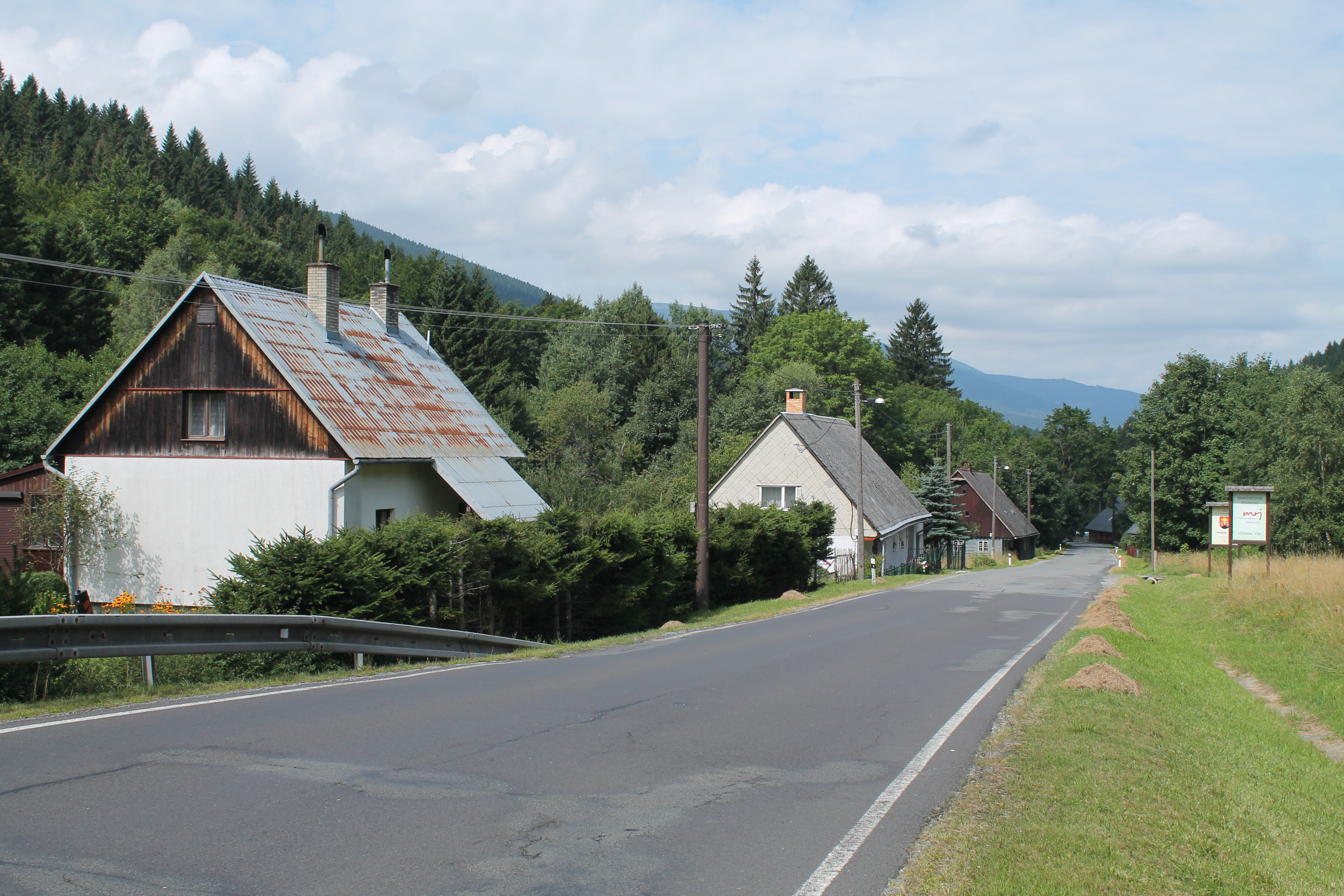 Bělá, Bělá pod Pradědem, Jeseník District, Czech Republic